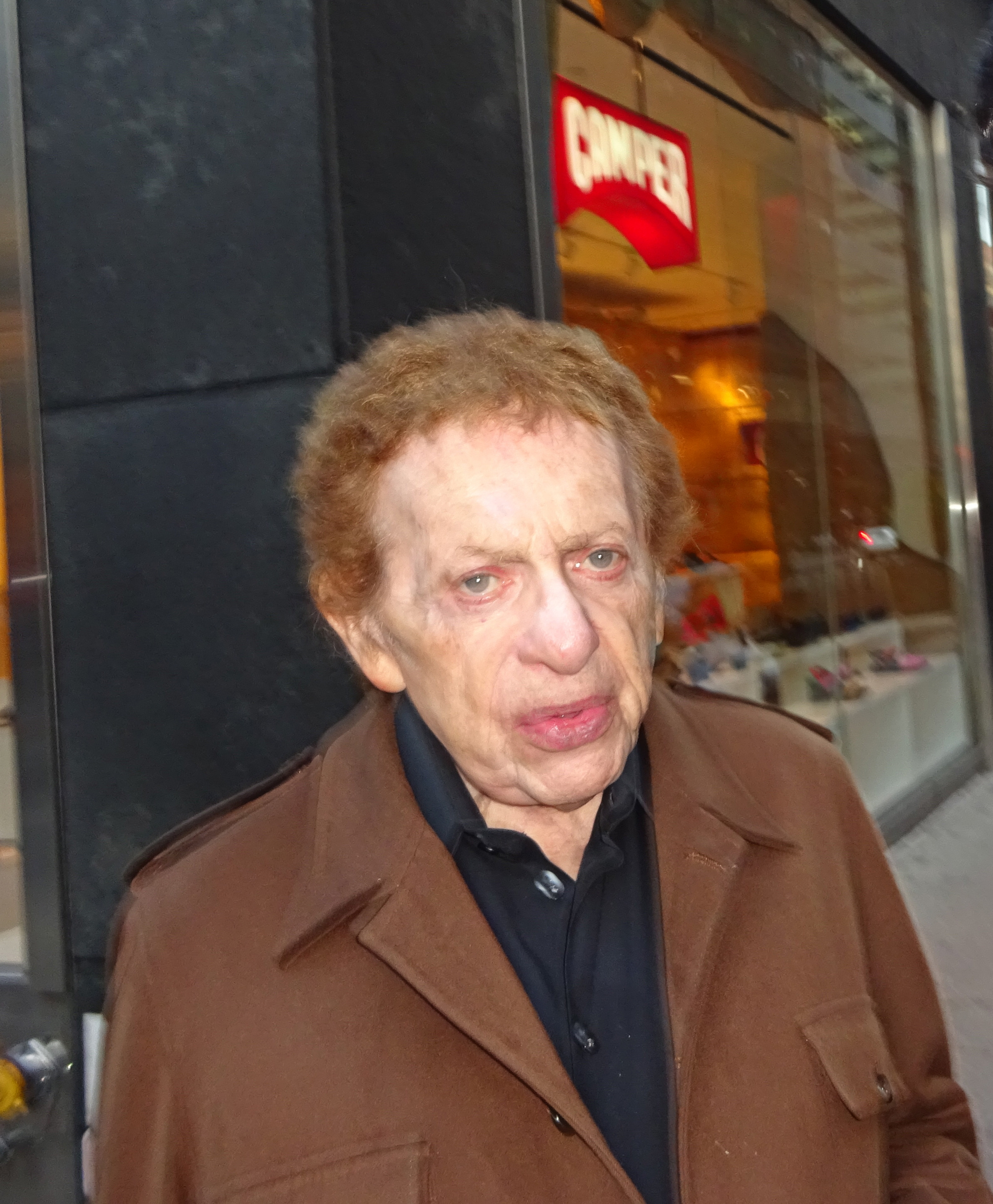 Star of Caddyshack II. April 2016